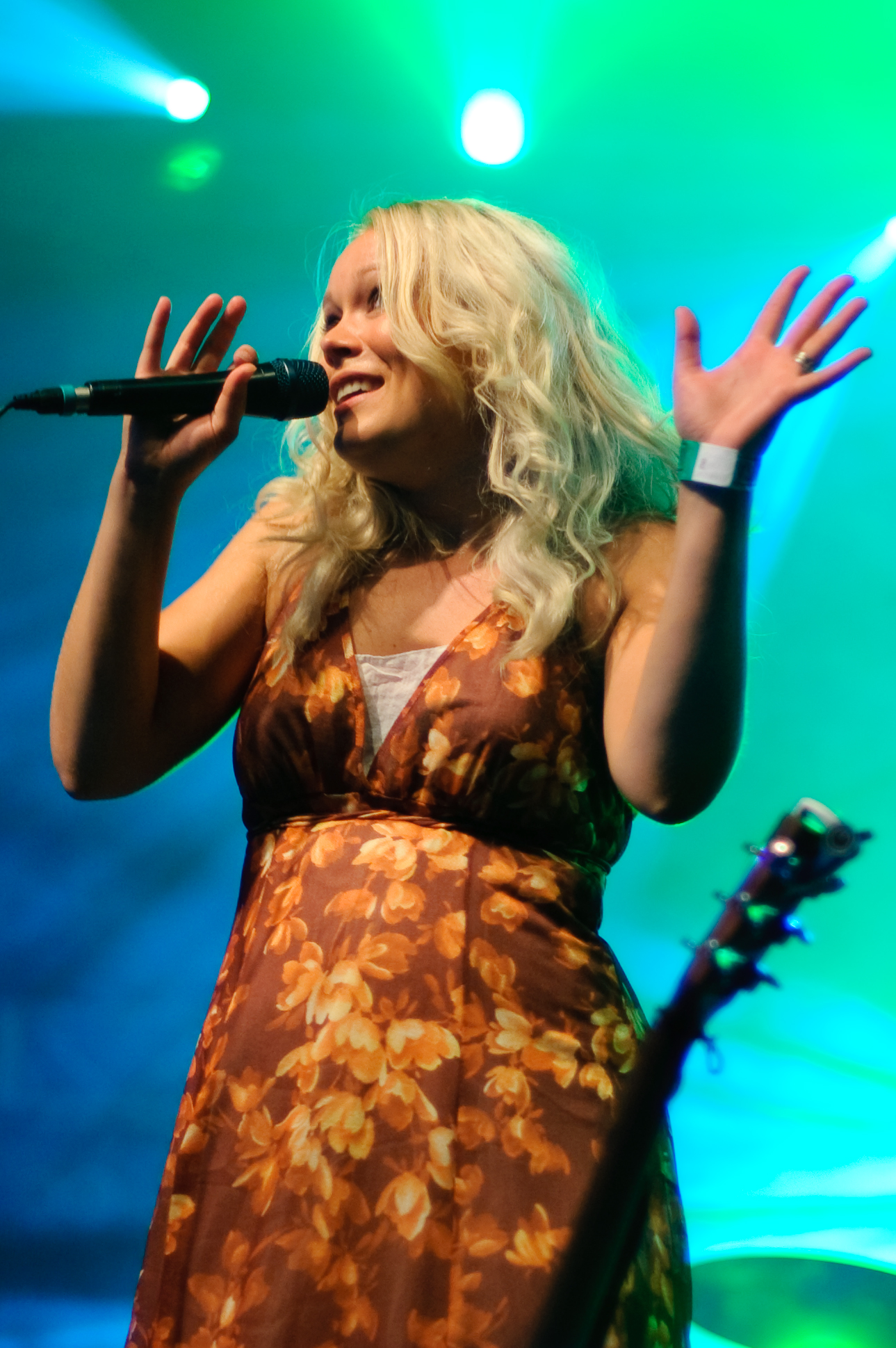 Vocalist Anna Puu performing at the 2009 Ilosaarirock festival in Joensuu, Finland.